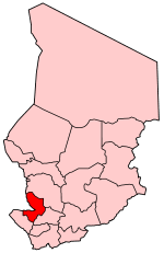 Map of Chad showing Mayo-Kebbi Est region.